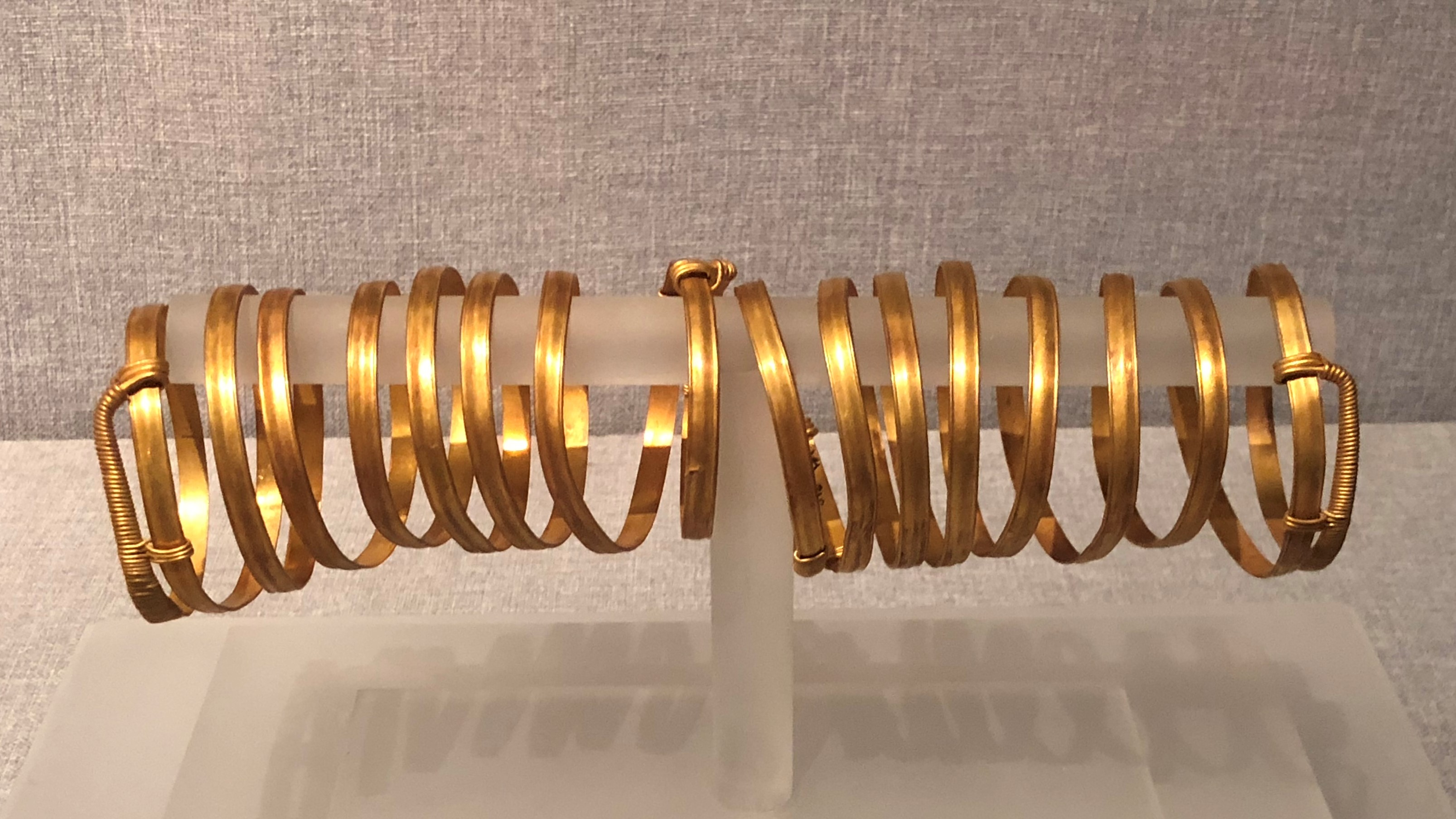 Gold armlet. Ming Dynasty. Excavated at Xun County